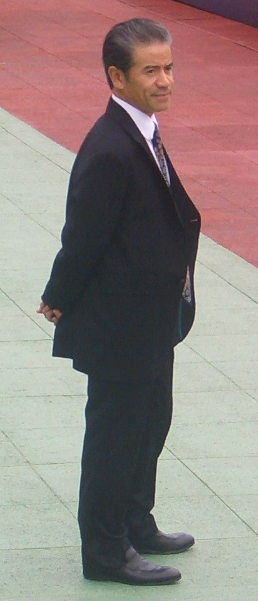 Anthony S.Cruz, Hong Kong horse trainer and former jockey 中文（香港）: 告東尼是香港練馬師及前騎師